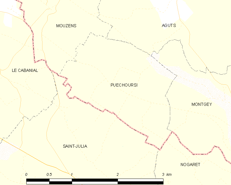 Map of French municipality Puéchoursi